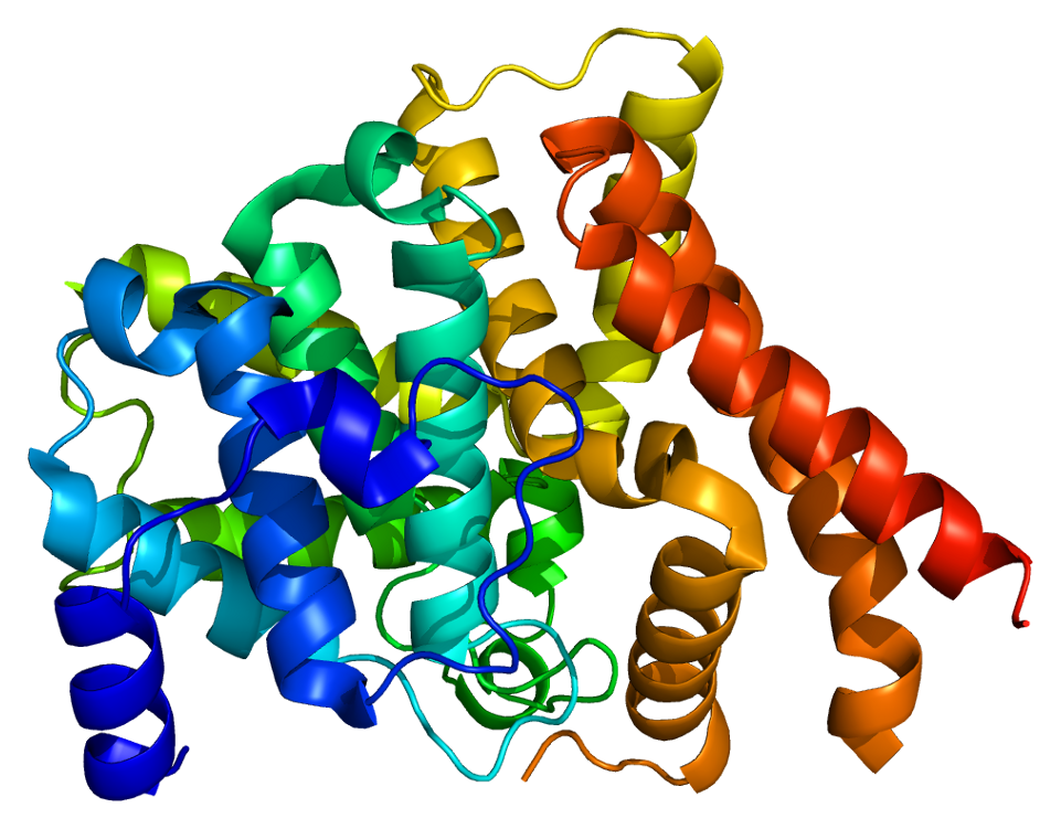 Structure of the PDE5A protein. Based on PyMOL rendering of PDB 3BJC.